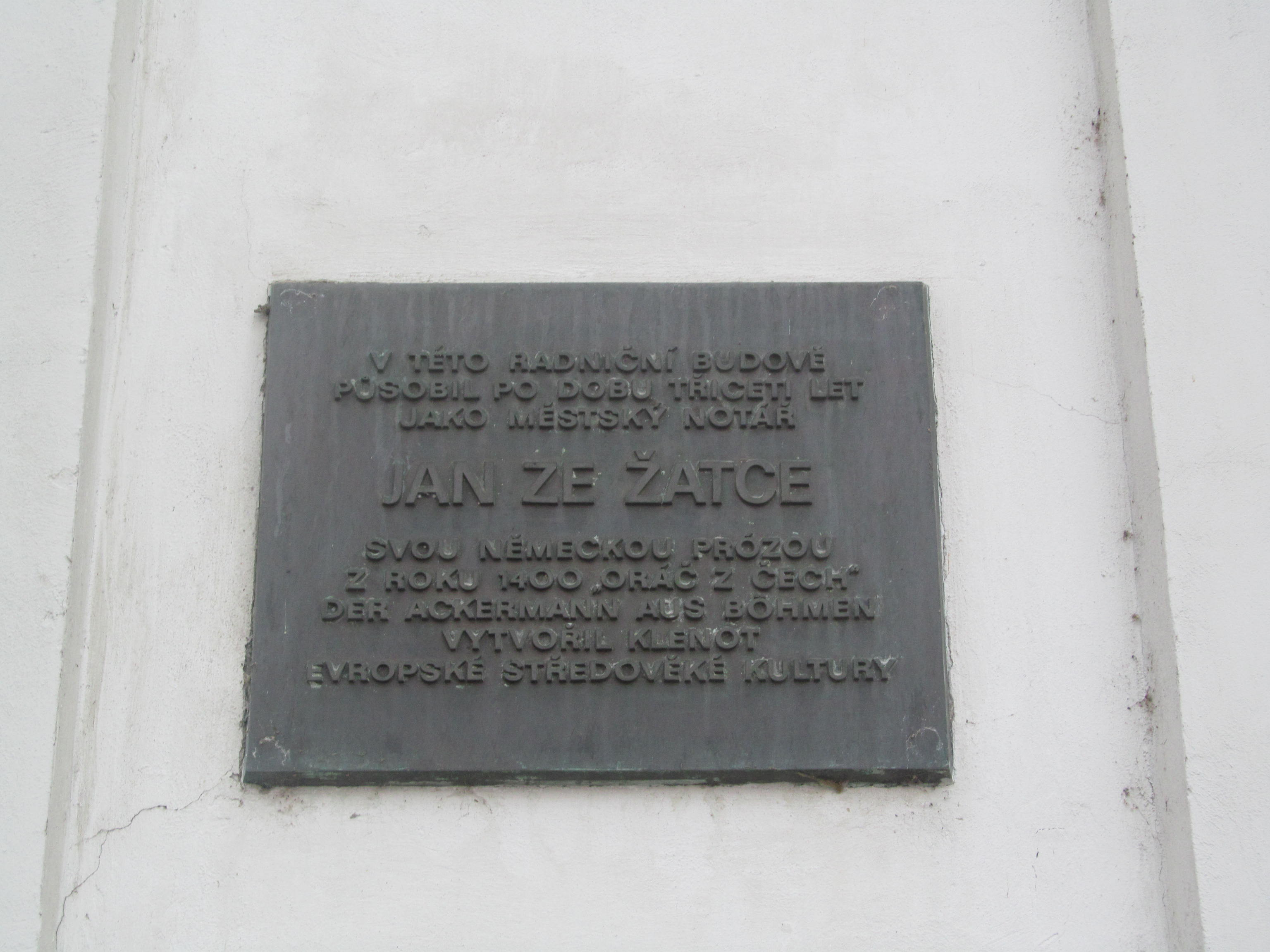 Plaque of Johannes von Tepl on Townhall in Žatec, Czech Republic